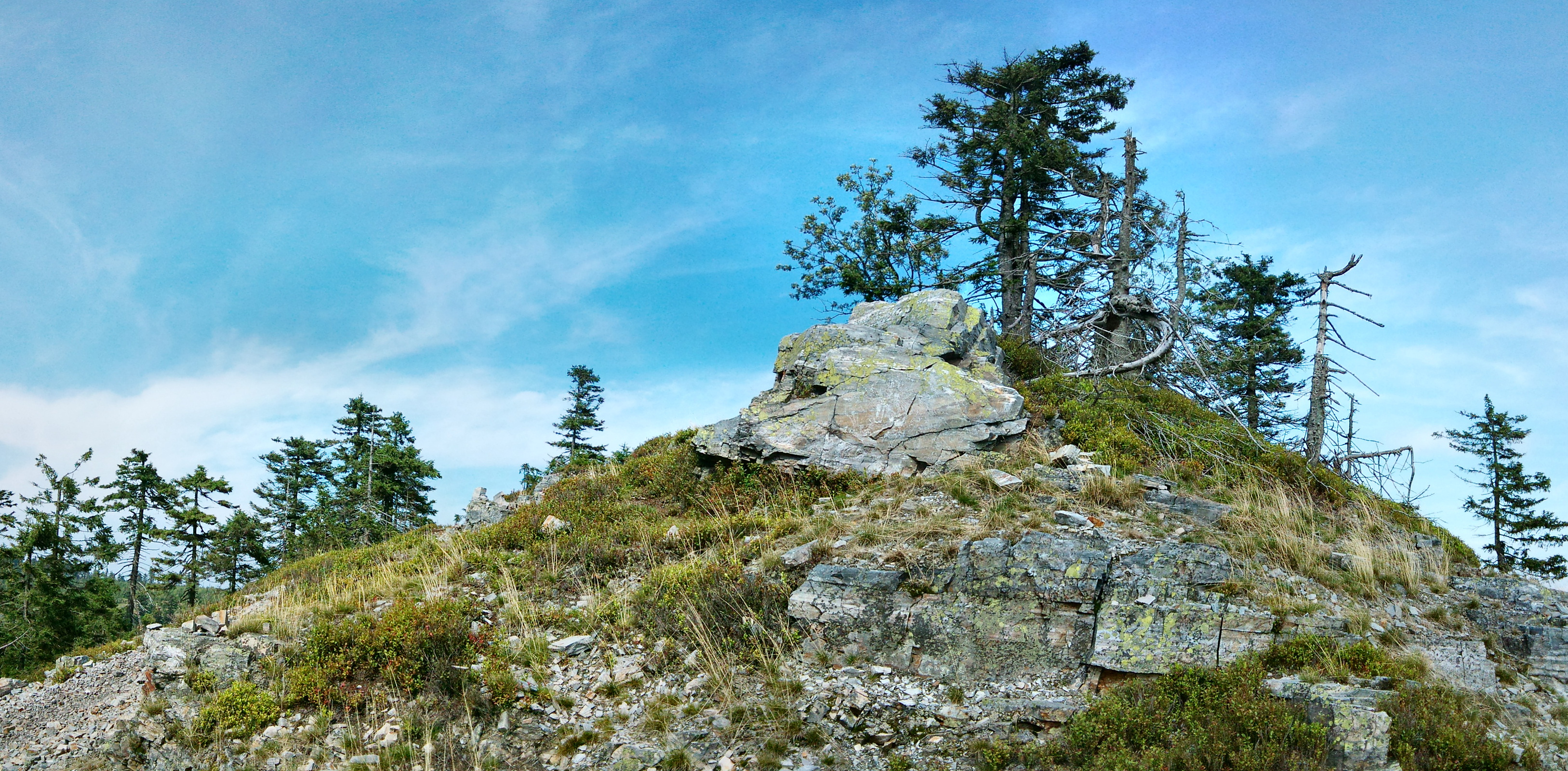 Summit of Brousek near Smrk in Rychleby Mountains.